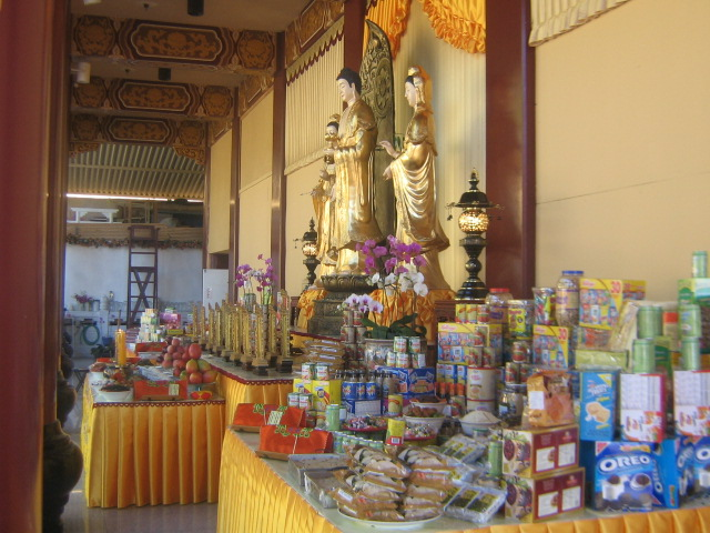 A setup of foods offered to all sentient beings and hungry ghosts. Taken at Hsi Lai Temple during Sangha Day 2006.